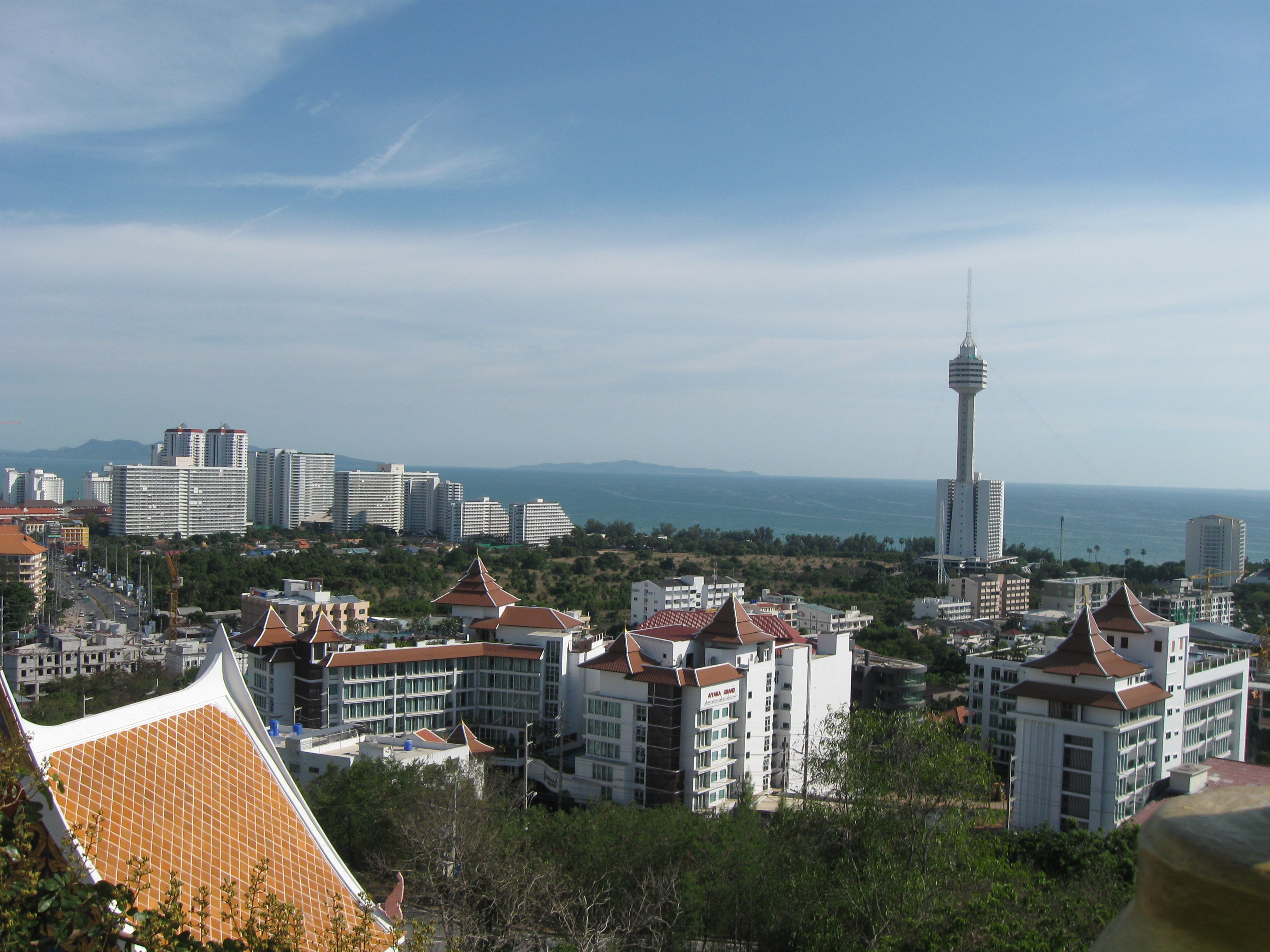 Wat Khao Phra Yai on Pratumnak Hill in Pattaya Thailand in May 2014. View of Jomtien